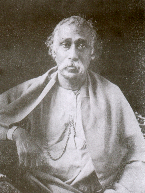 Mahendralal Sarkar (1833–1904) photographed by Upendrakishore Roy Choudhury (1863-1915)